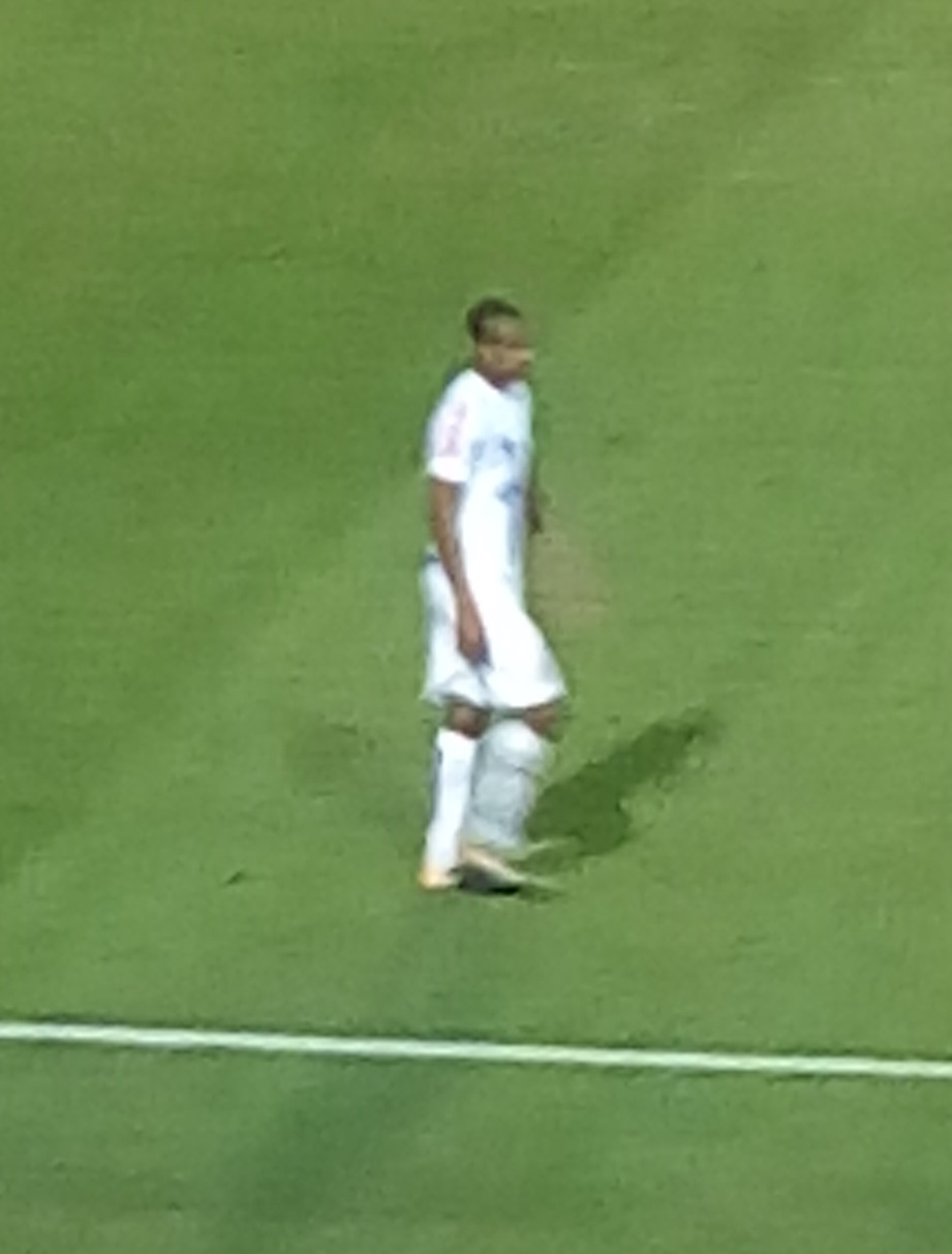 Jonathan Copete in action for Santos FC against Vitória on 16 October 2017.